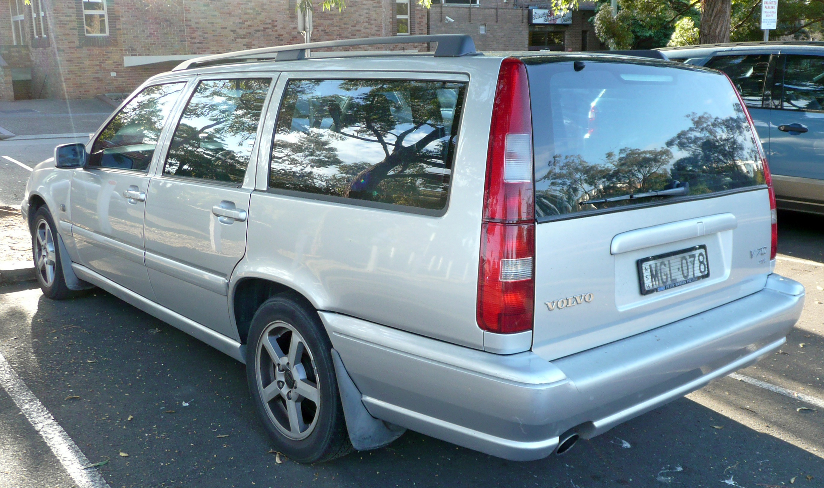 2000 Volvo V70 (MY00) 2.4 20V CD station wagon. Photographed in Sutherland, New South Wales, Australia.